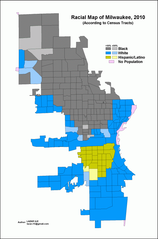 This is a racial map of Milwaukee. It is made according to data from the 2010 census.